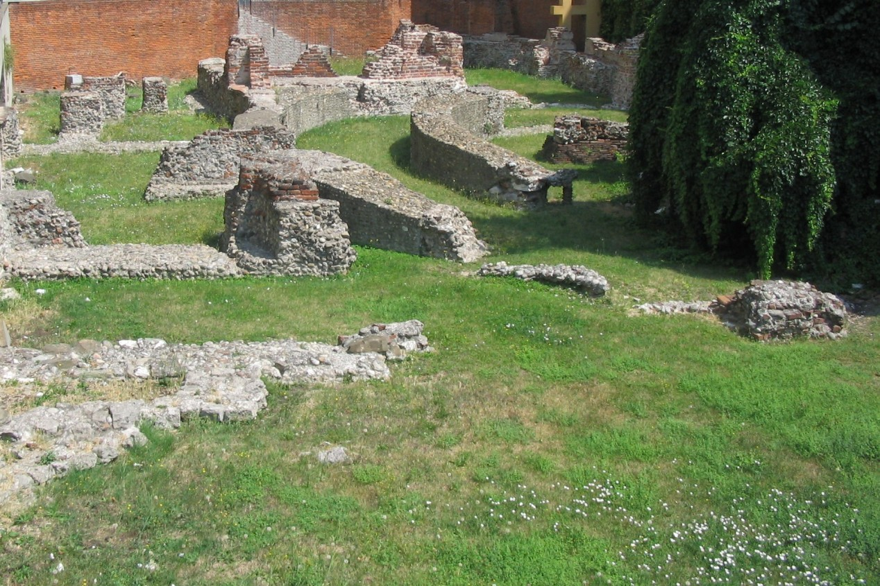 Ruins of the Ancient Roman imperial palace in via Brisa in Milan, Italy. Milan become, in the 4th century AD, the capital of the Western portion of the Roman Empire. In this view a circular corridor with some rooms around, the circle on the centre was probably surrounded by columns. Shot by Lorenzo Fratti, 2007.